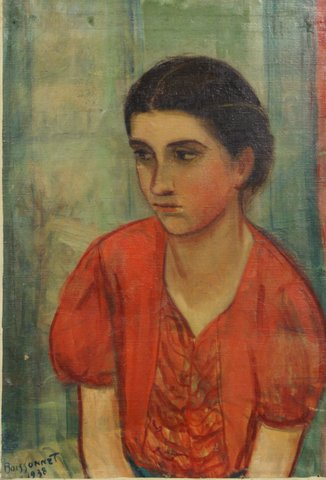 Edmond Boissonnet